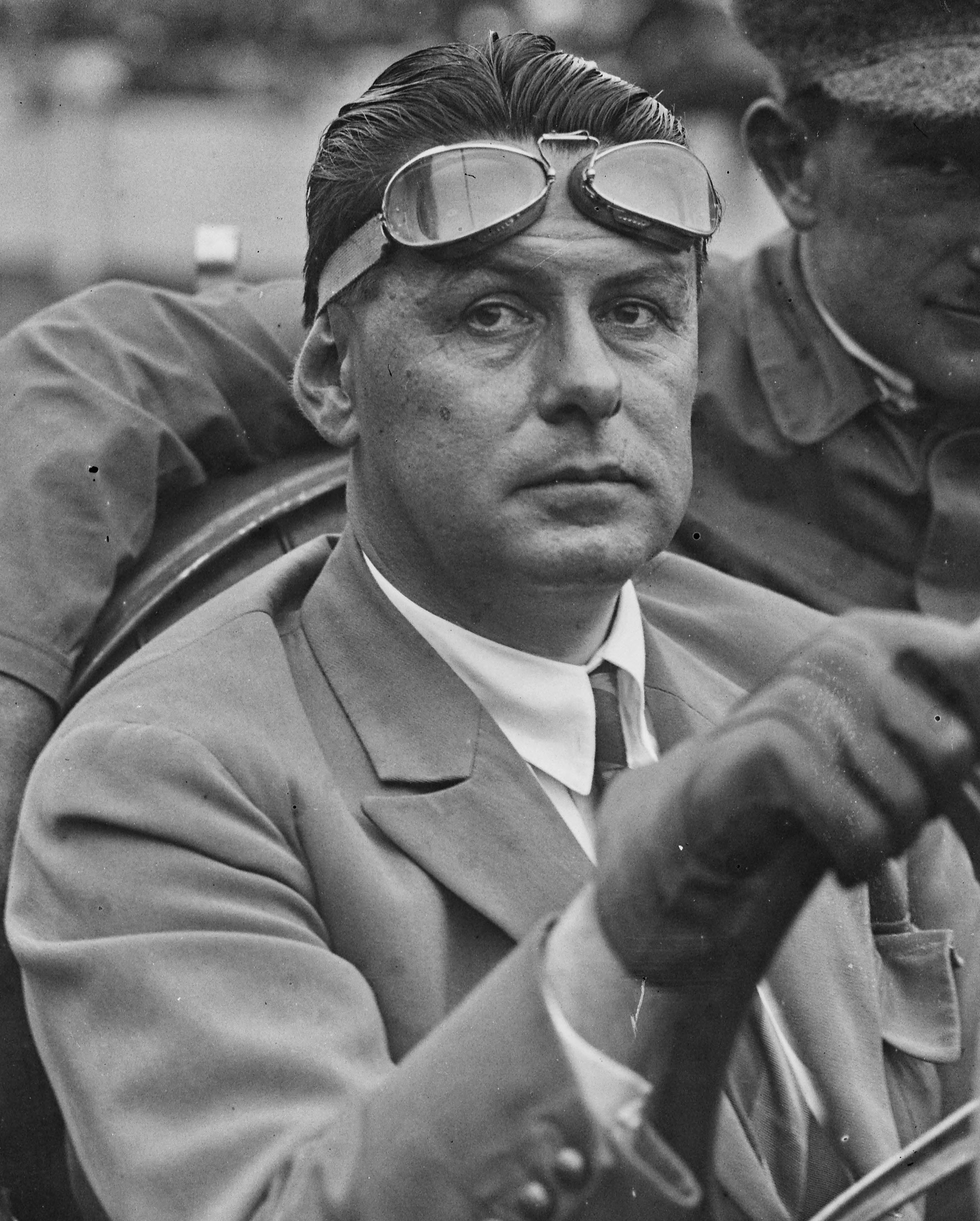 Émile Mathis in his Mathis the 1921 French Grand Prix at Le Mans.